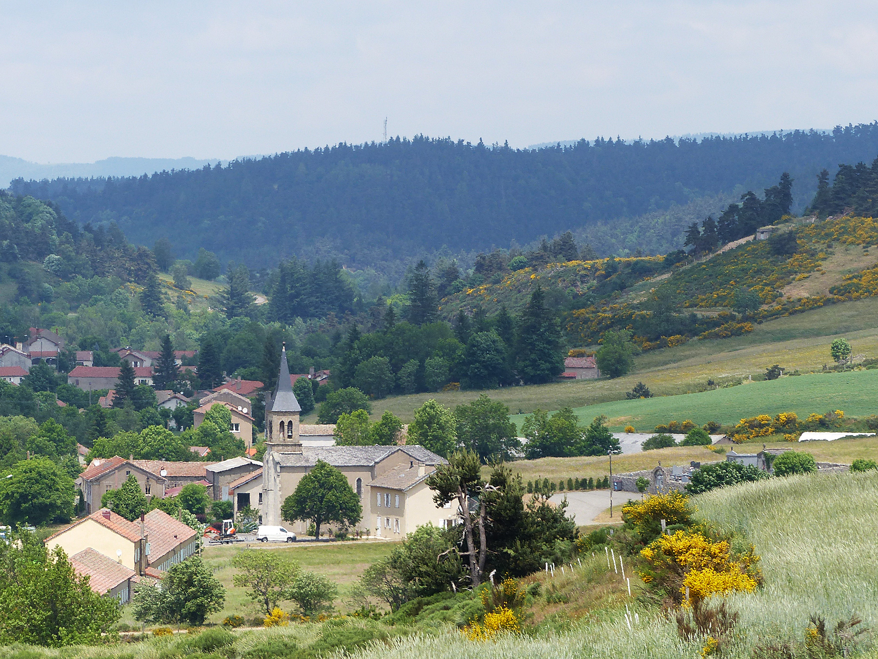 The village of Laveyrune, Ardèche, France from the GR70 Chemin du Stevenson.